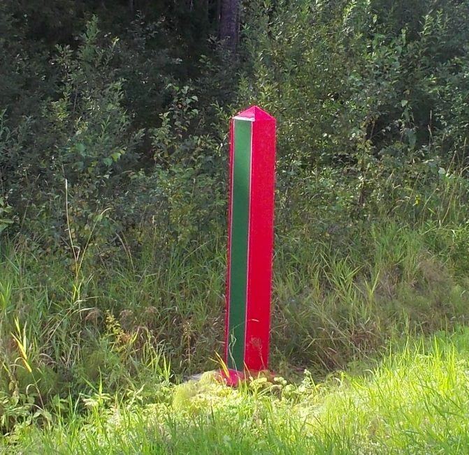 Cropped version of the original file